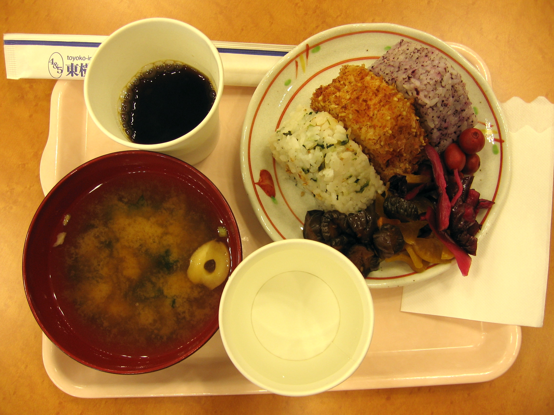 Japanese-style breakfast in TOYOKO INN